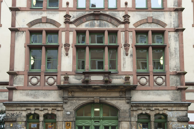 part of front of school building named Gymnasium Dreikoenigschule Dresden